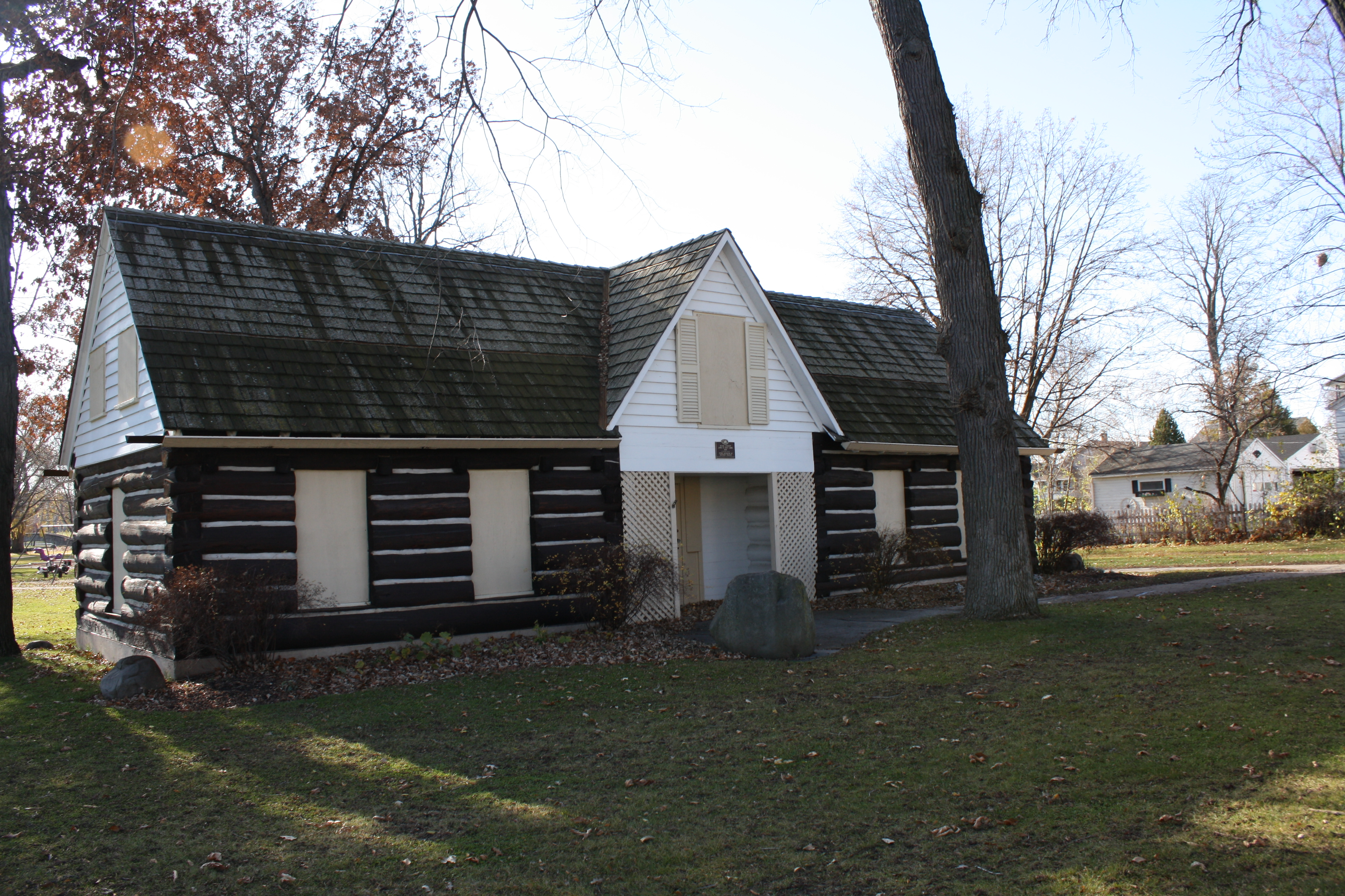 The front of the Grand Loggery, home of politician James Duane Doty, on Doty Island (Wisconsin) in Neenah, Wisconsin.